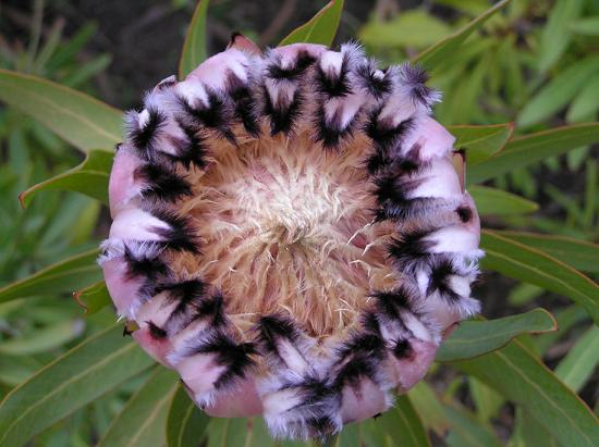 Protea Protea neriifolia closeup. my photo from San Francisco Botanical Garden (former Strybing Arboretum), November 2004